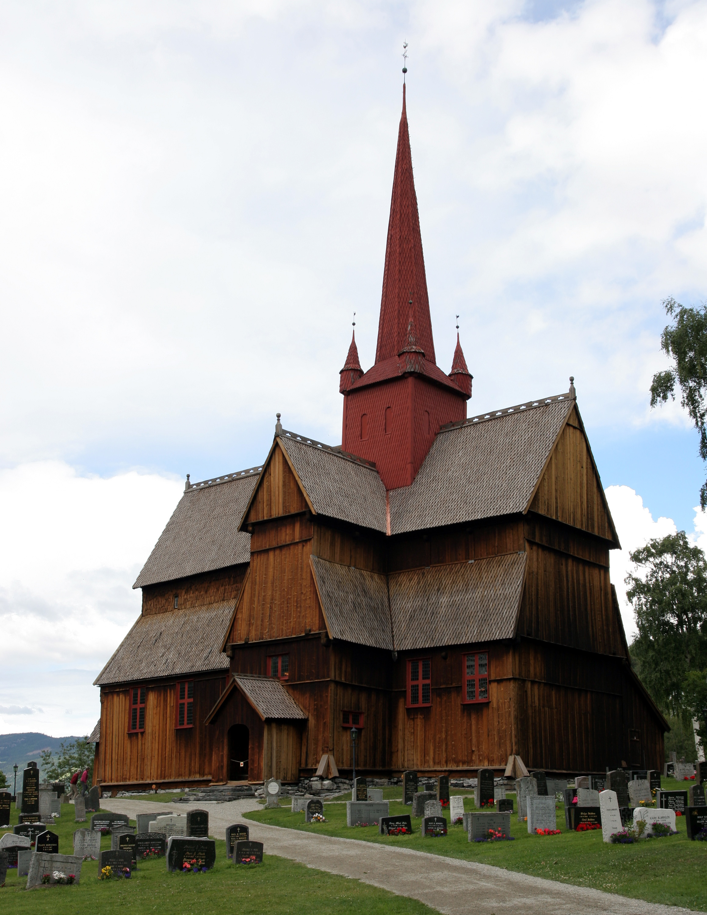 The Ringebu stav church (Norway)